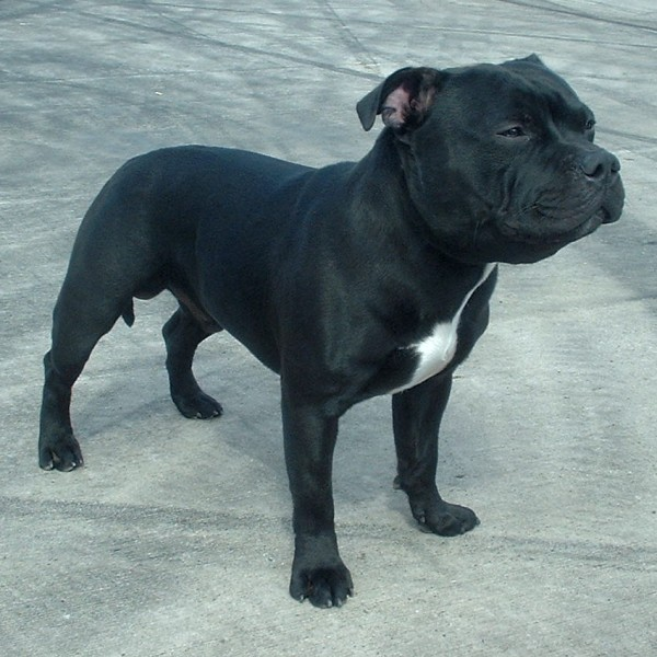 Burkeys Pride (Dempsey) Photo by sannse at the City of Birmingham Championship Dog Show, 30th August 2003